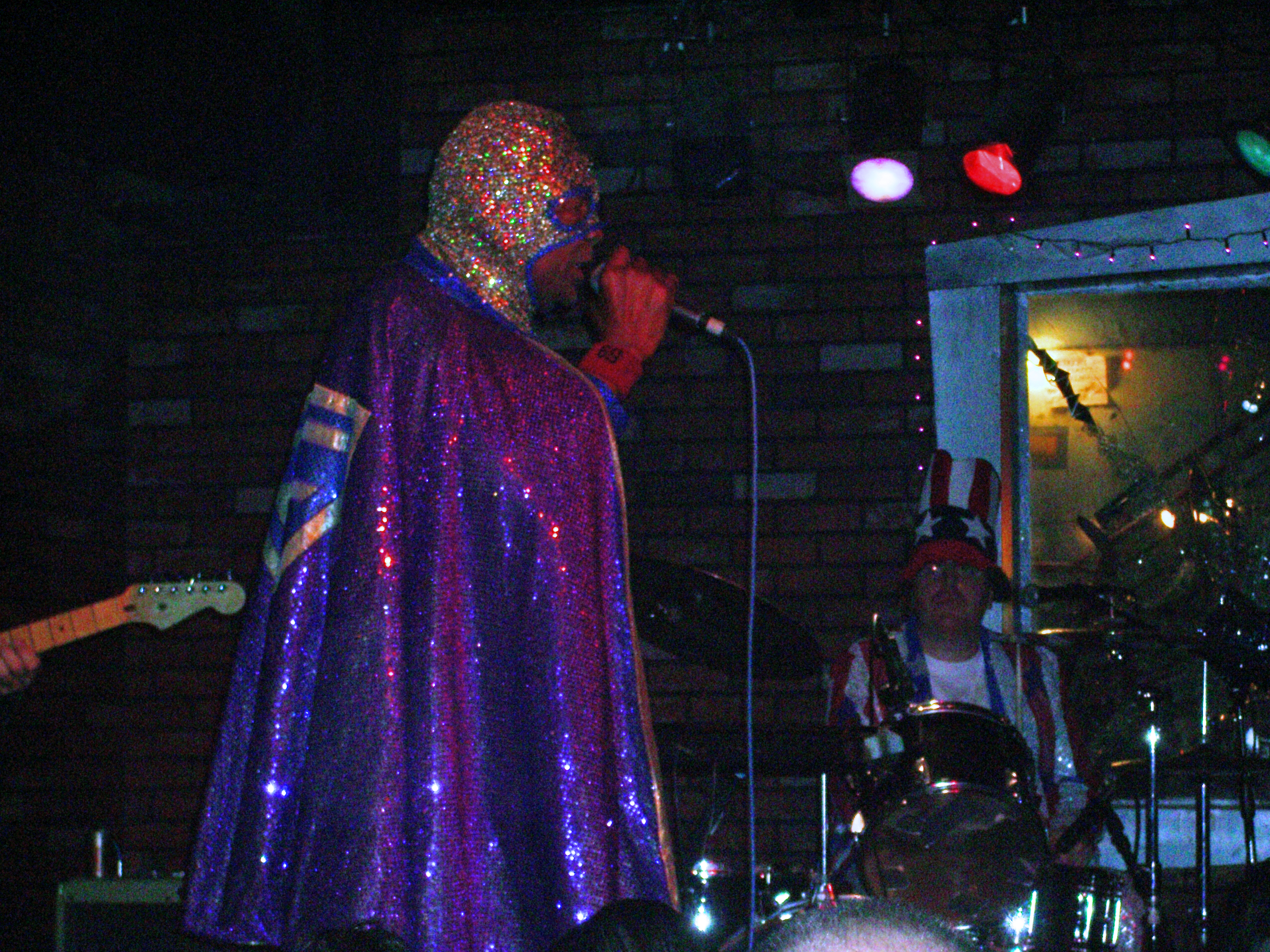 Blowfly on stage in san francisco.